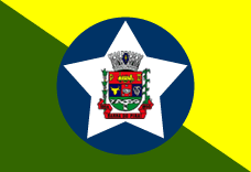 Flag of city of Barra do pirai